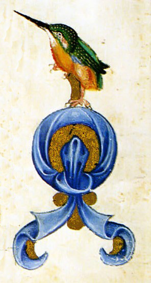 Bible of Wenceslaus IV.